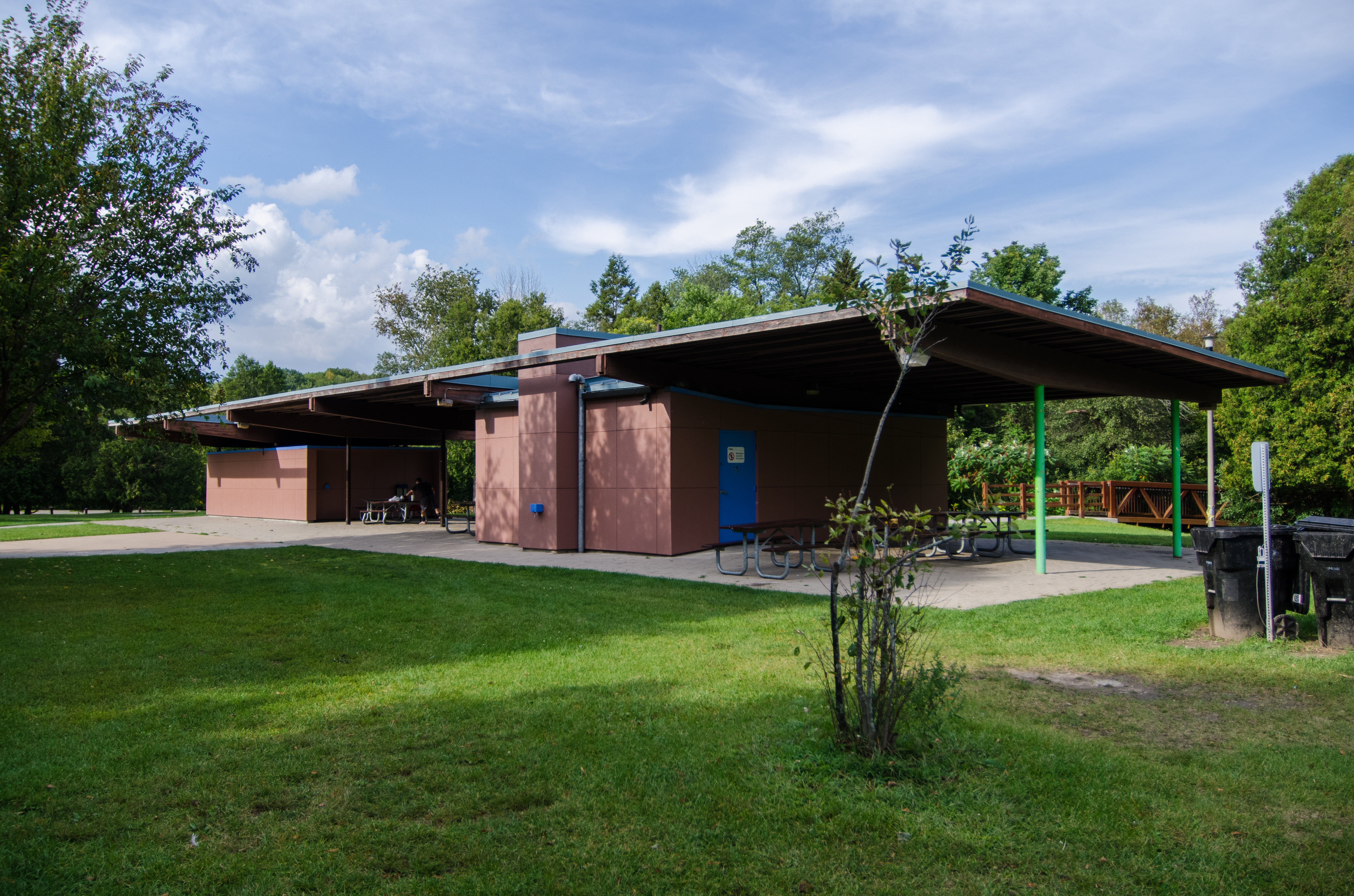 Seen in The Incredible Hulk.